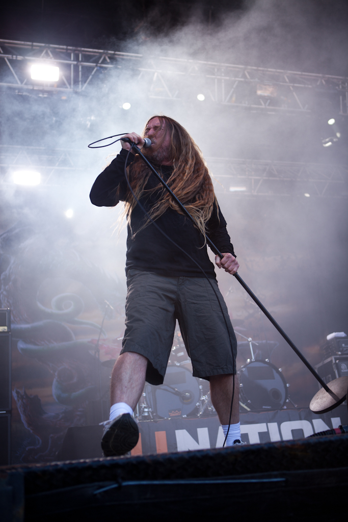 Obituary live at GRF 2012.